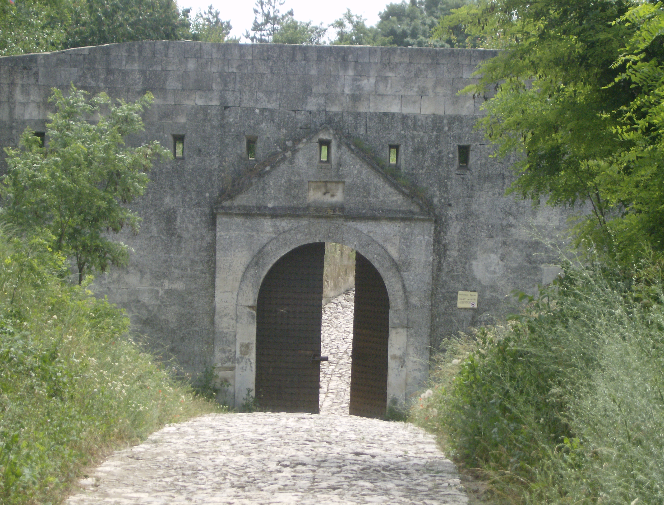 Entrance